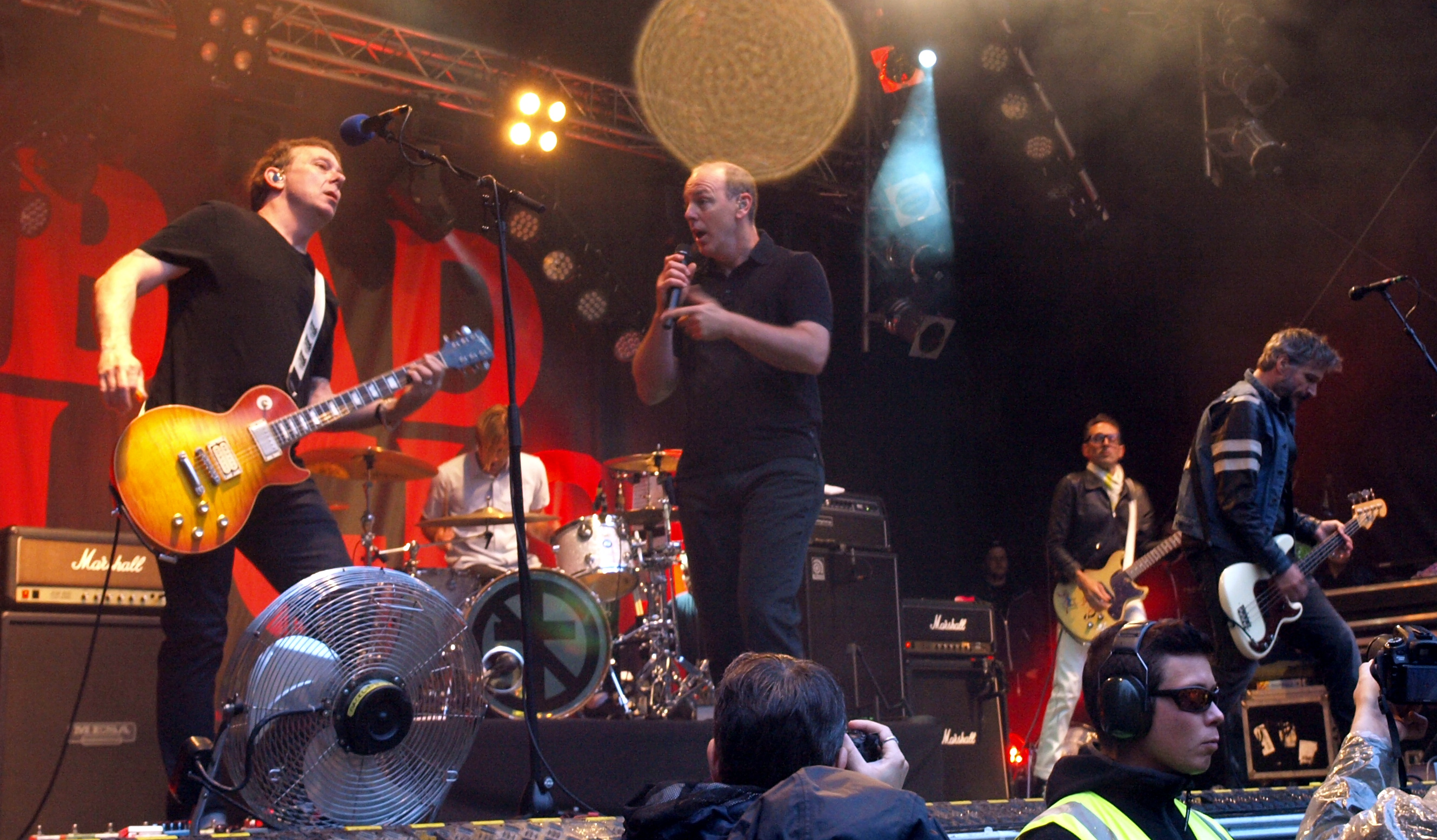 American band Bad Religion live at Provinssirock 2013